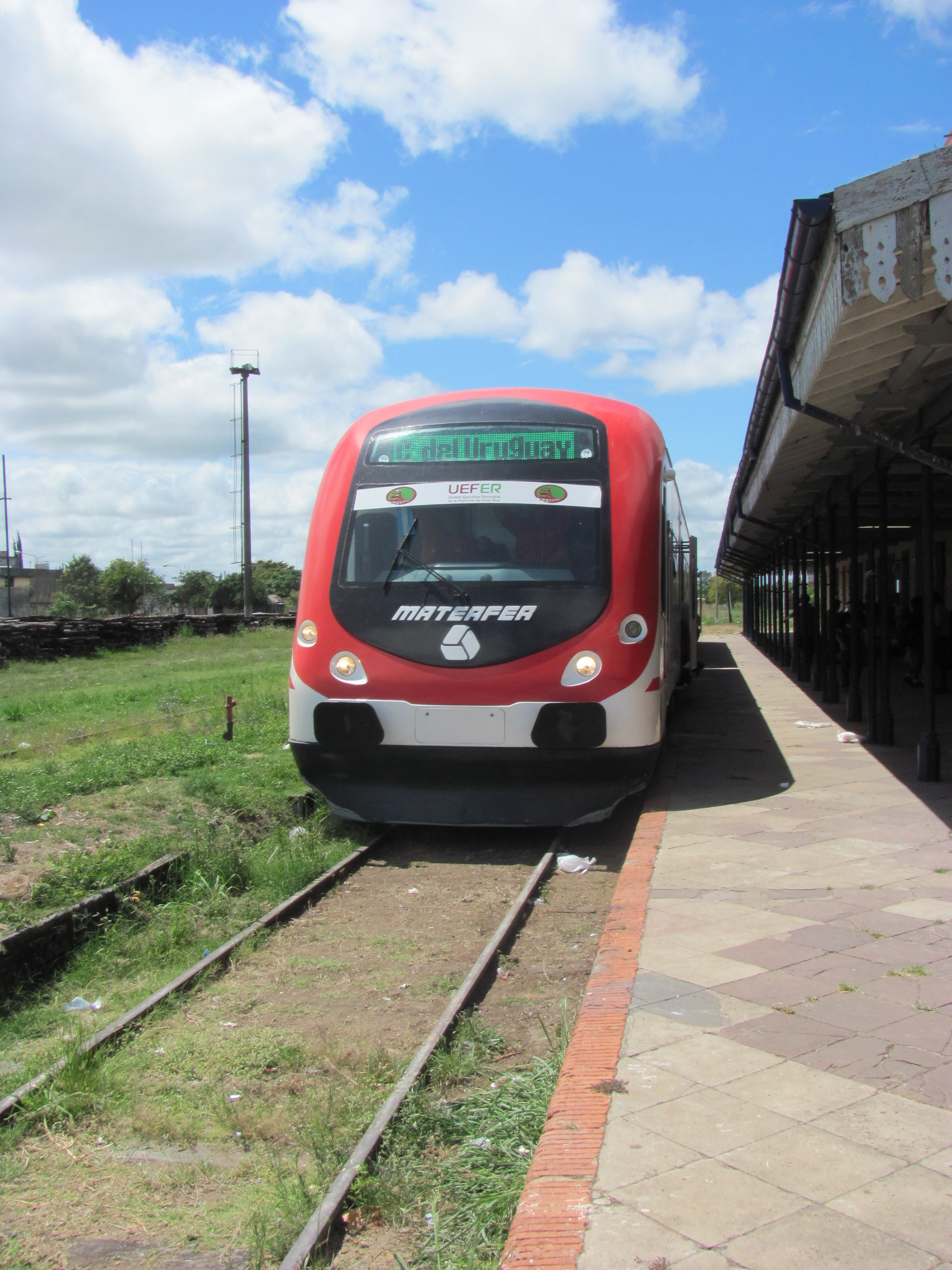 Railcar (CMM 400-2) manufactured by Argentine company Materfer, stopped at Concepción del Uruguay station, Entre Ríos Province.